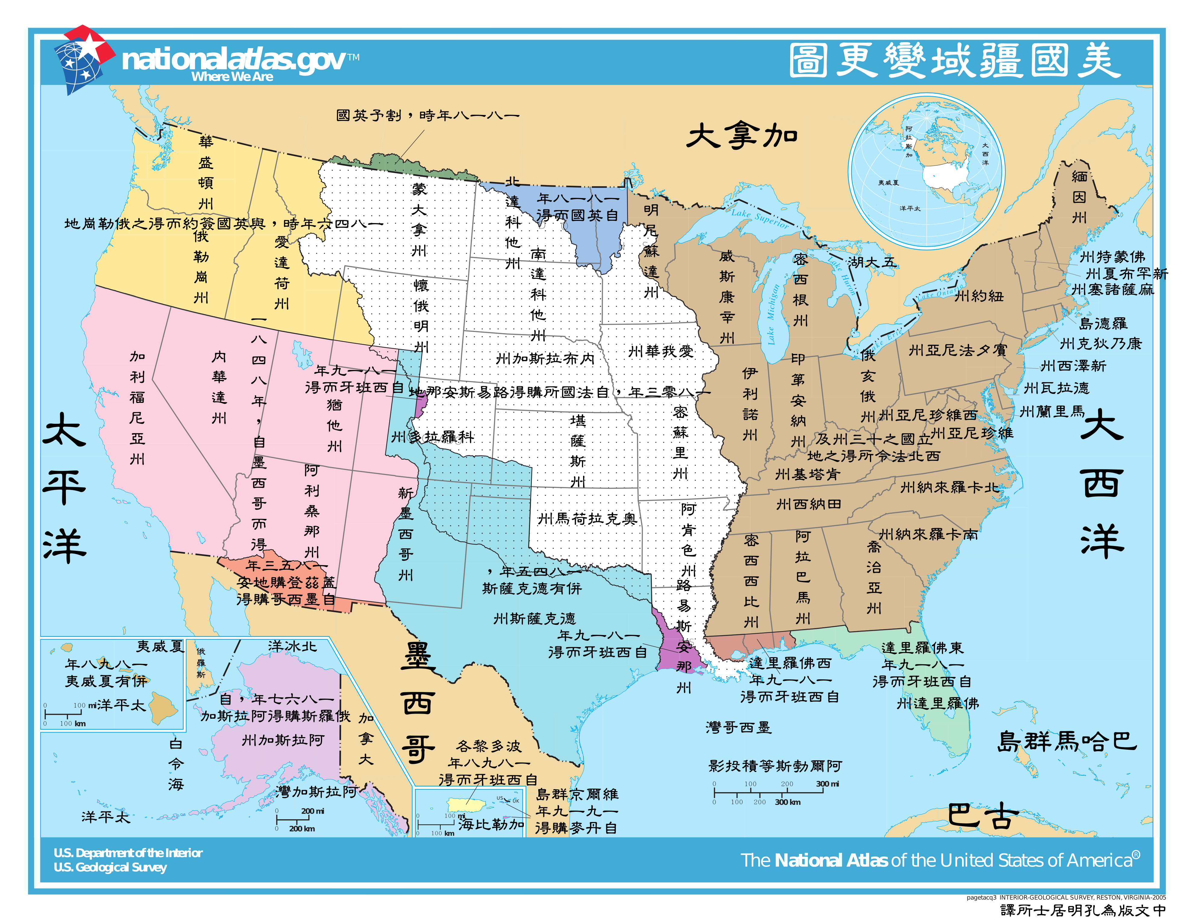 This image depicts the Territorial acquisitions of the United States, such as the Thirteen Colonies, the Louisiana Purchase, British and Spanish Cession, and so on. Errors This map uses incorrect terms in that Great Britain didn't exist as a political entity in 1818 or 1846, having been superseded by the United Kingdom following the Act of Union with Ireland in 1801. This map does not show the full extent of the Oregon Territory into what is now Canada. The map shows a portion of the Isle of Orleans as part of the West Florida (Spanish Cession) 1819, but the area south of Lake Pontchartrain and east of the Amite River were part of the Louisiana Purchase 1803 (from France).